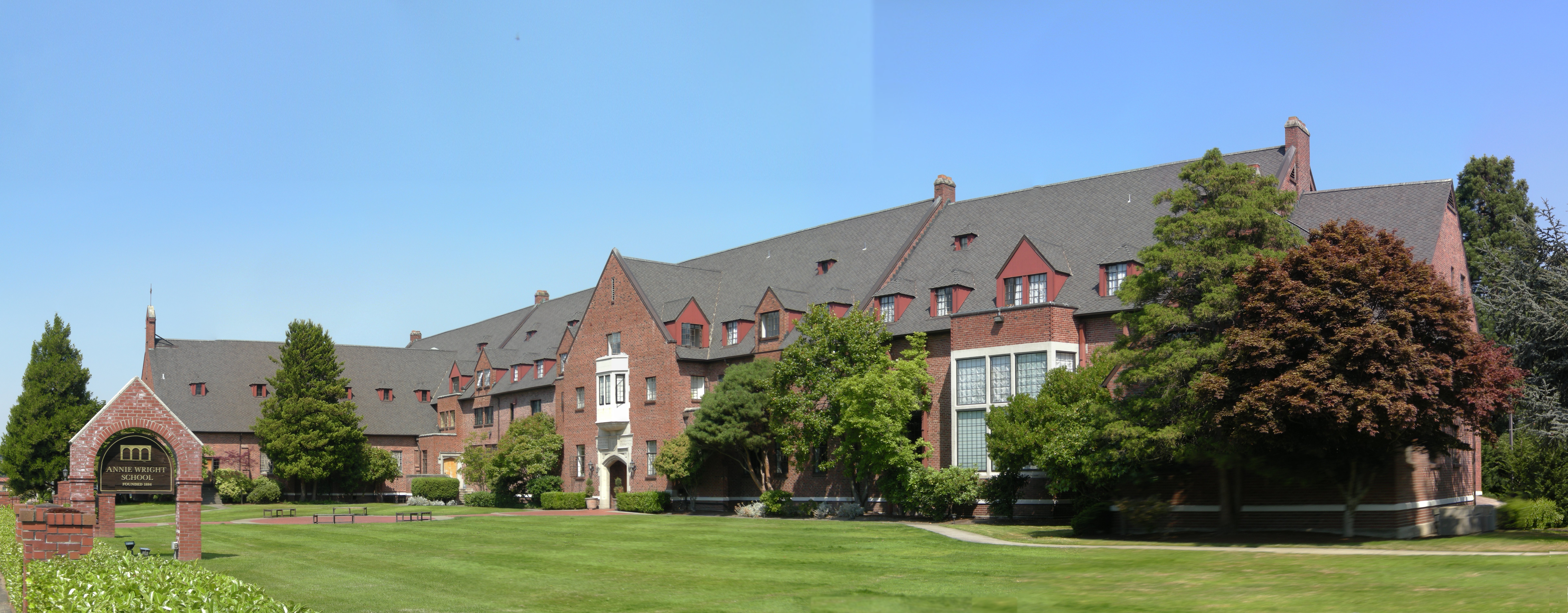 Annie Wright School, Tacoma, Washington